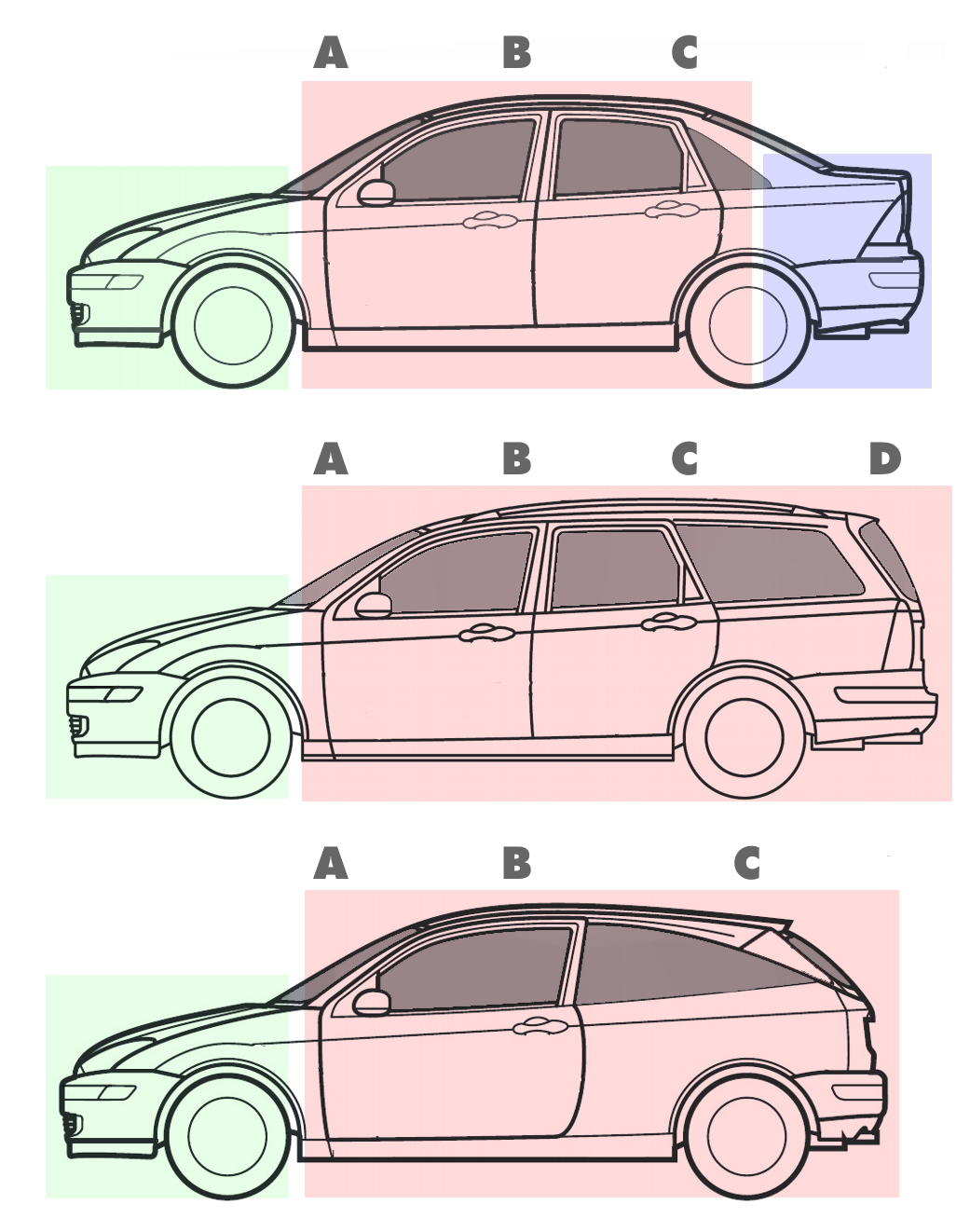 Platform diagram of the first generation Ford Focus in sedan (top), station wagon (center), and hatchback (bottom) variants.